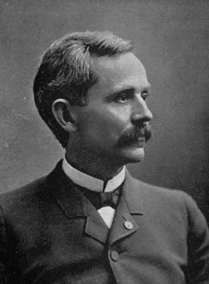 Joseph Wilson Fifer, Gov. of Illinois 1889-93